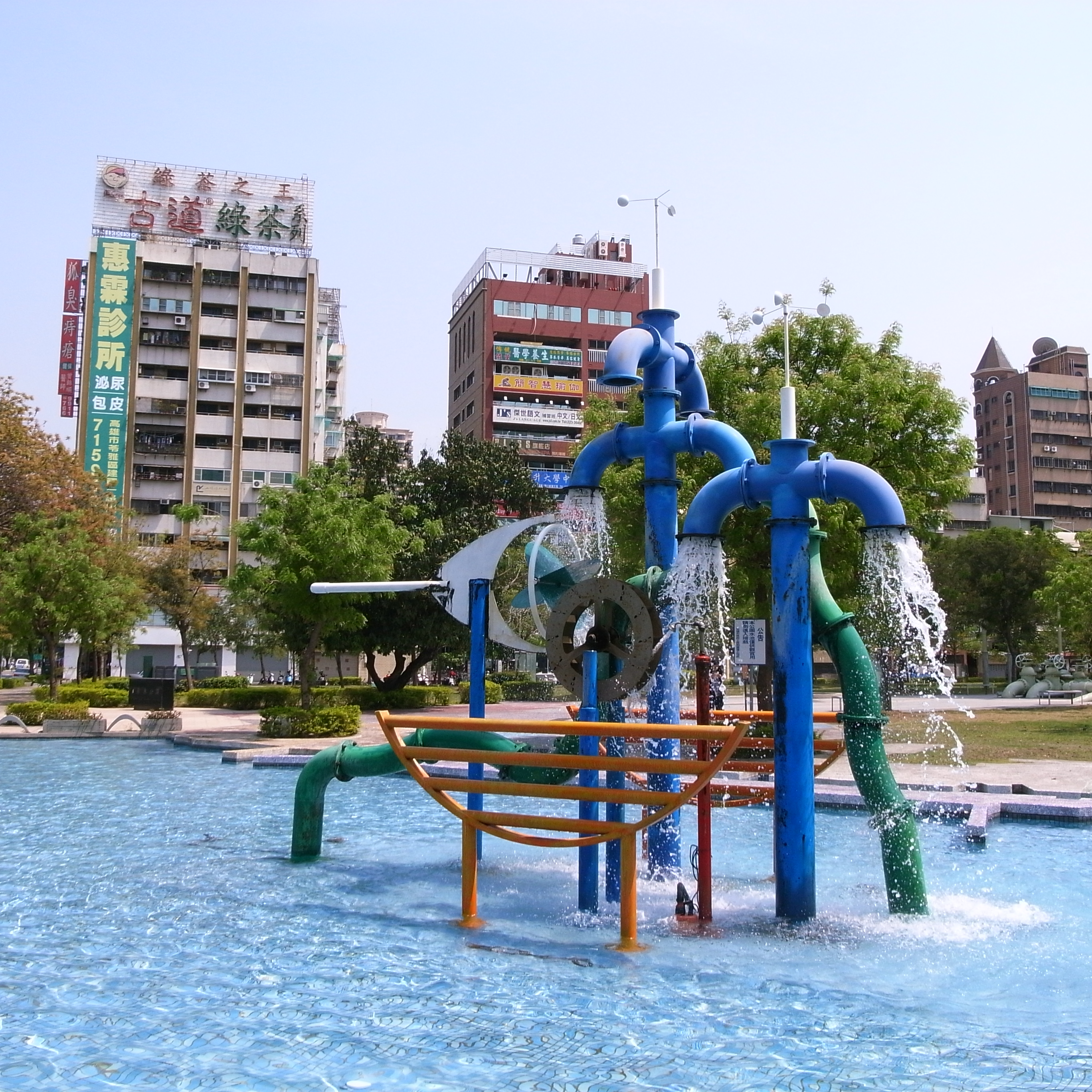 Water Tower Park